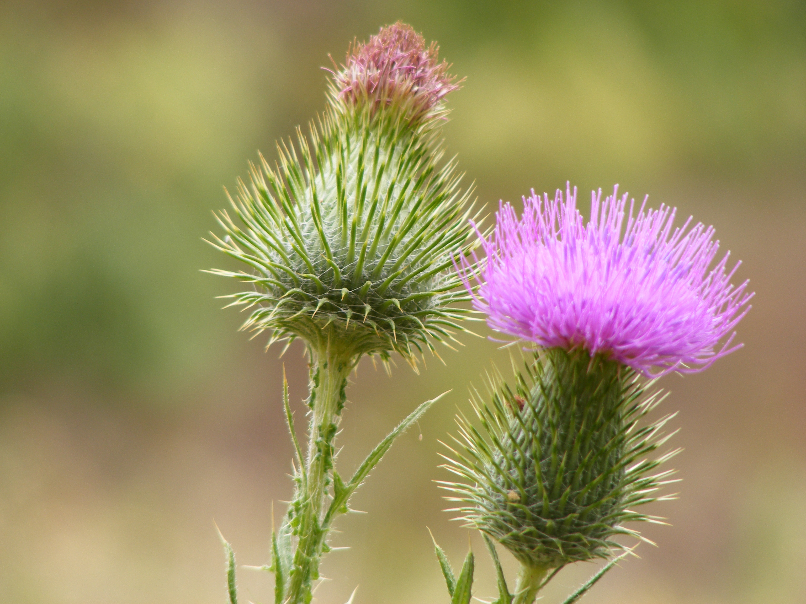 Cirsium vulgare (Spear Thistle) at Anstey Hill recreation park, Adelaide, South Australia